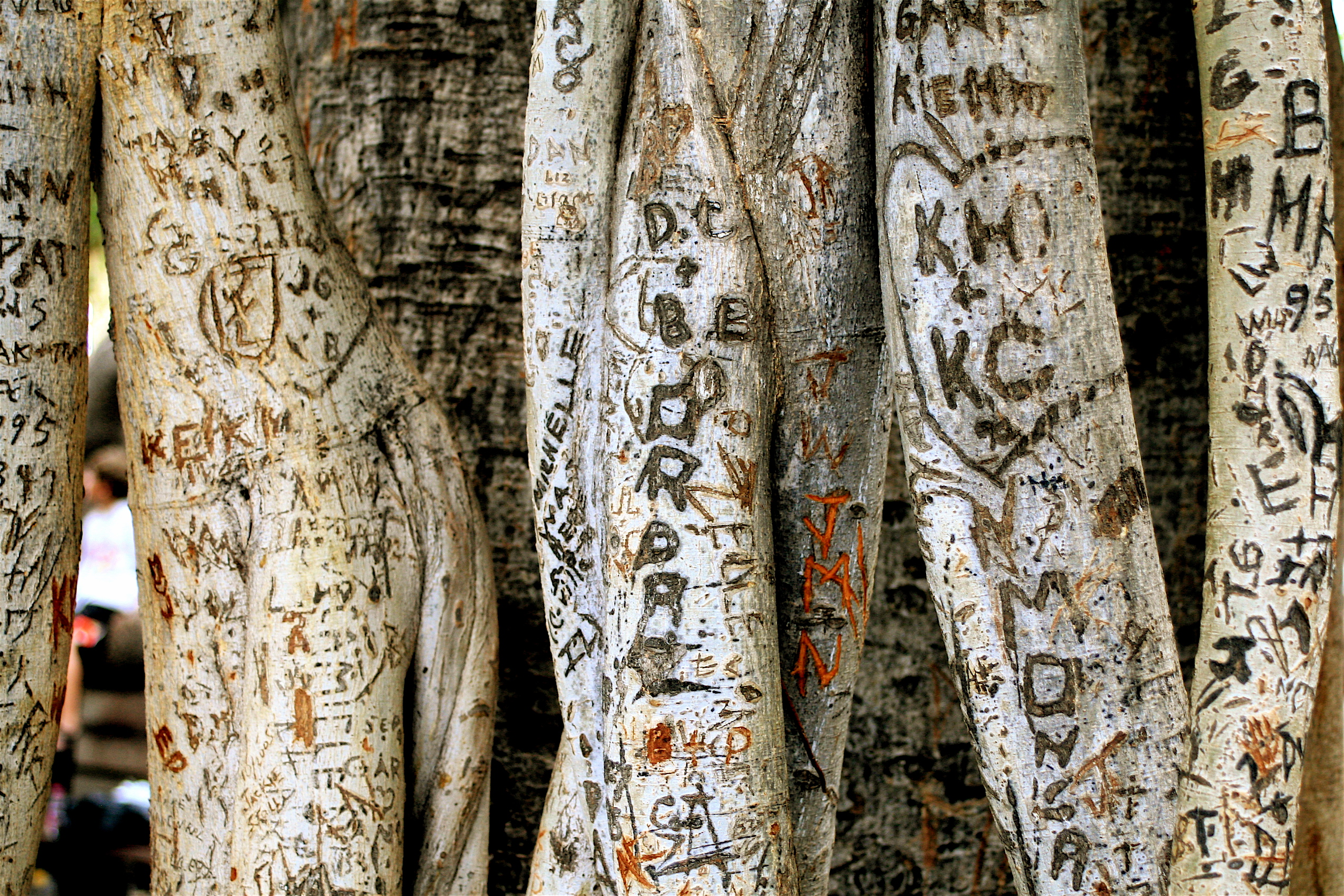 Many visitors have felt compelled to leave their marks on this majestic old tree. The carvings are interesting, but it would have been better if there would have been no carvings.